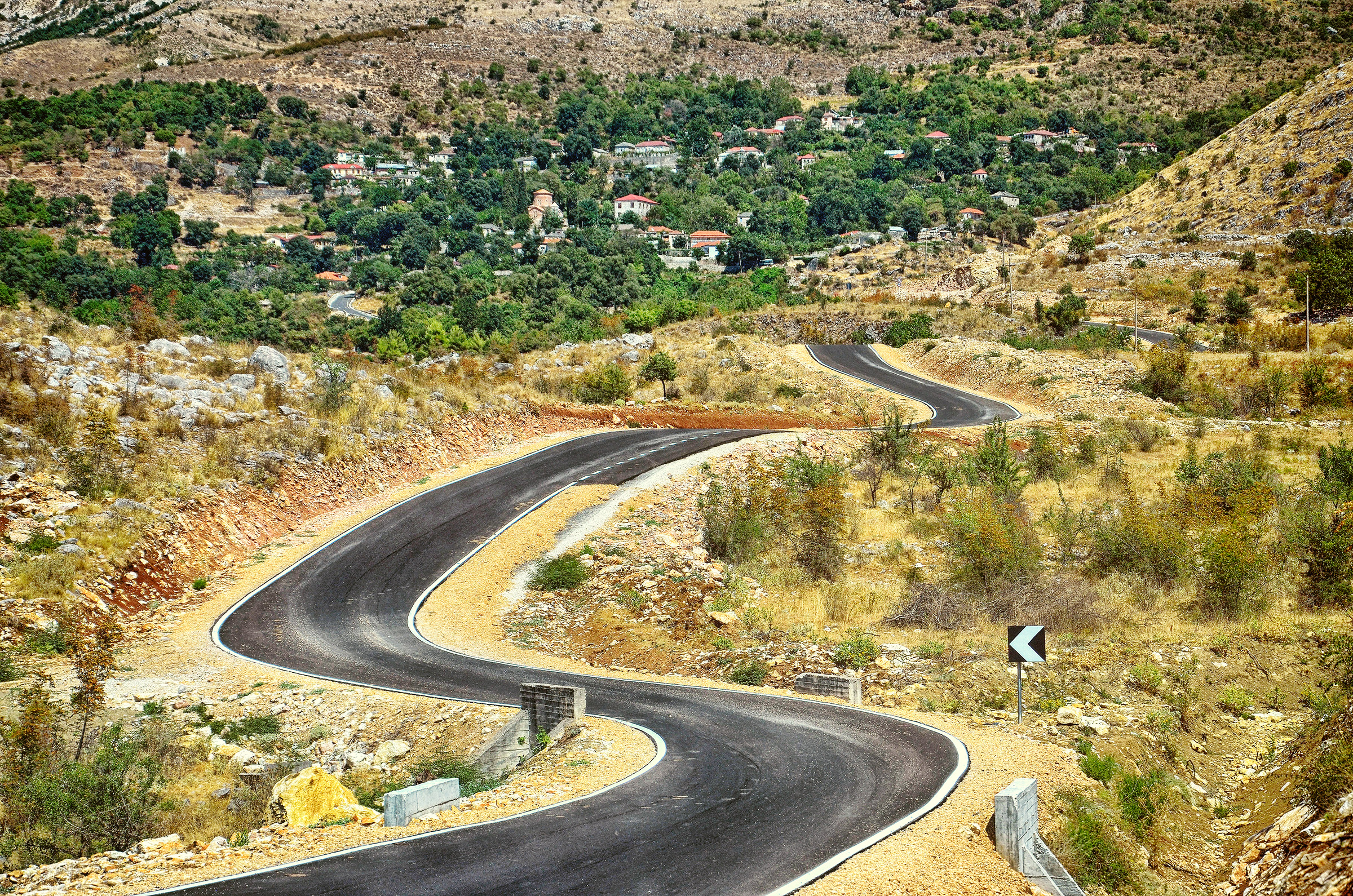 The road leading to Labovë e Kryqit, Albania